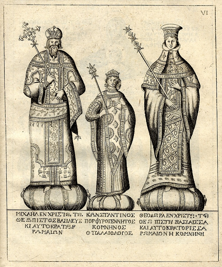 Three Byzantine imperial portraits, from the appendix to C. Du Cange, Glossarium ... Latinitatis